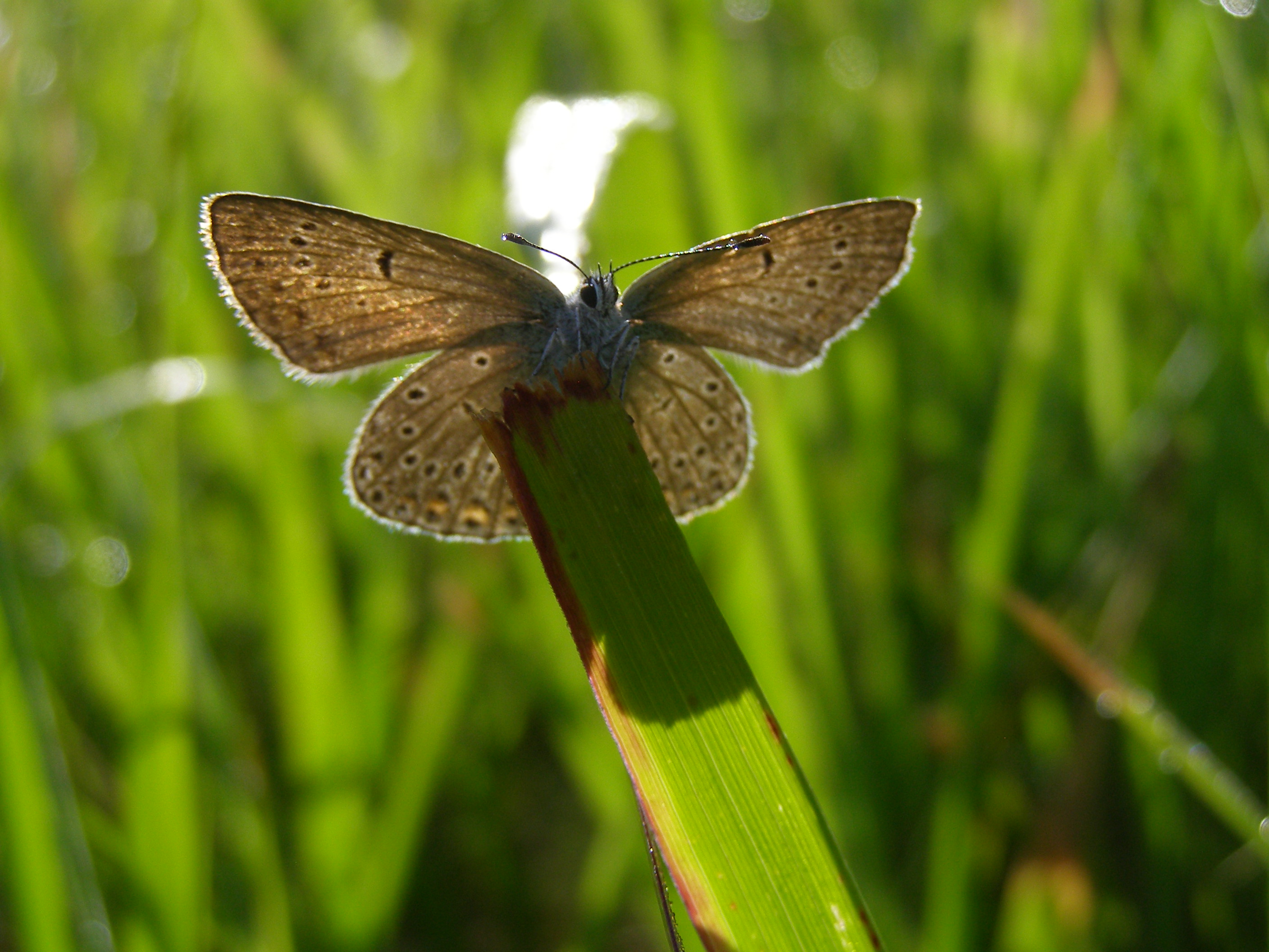 Female Polyommatus amandus from below